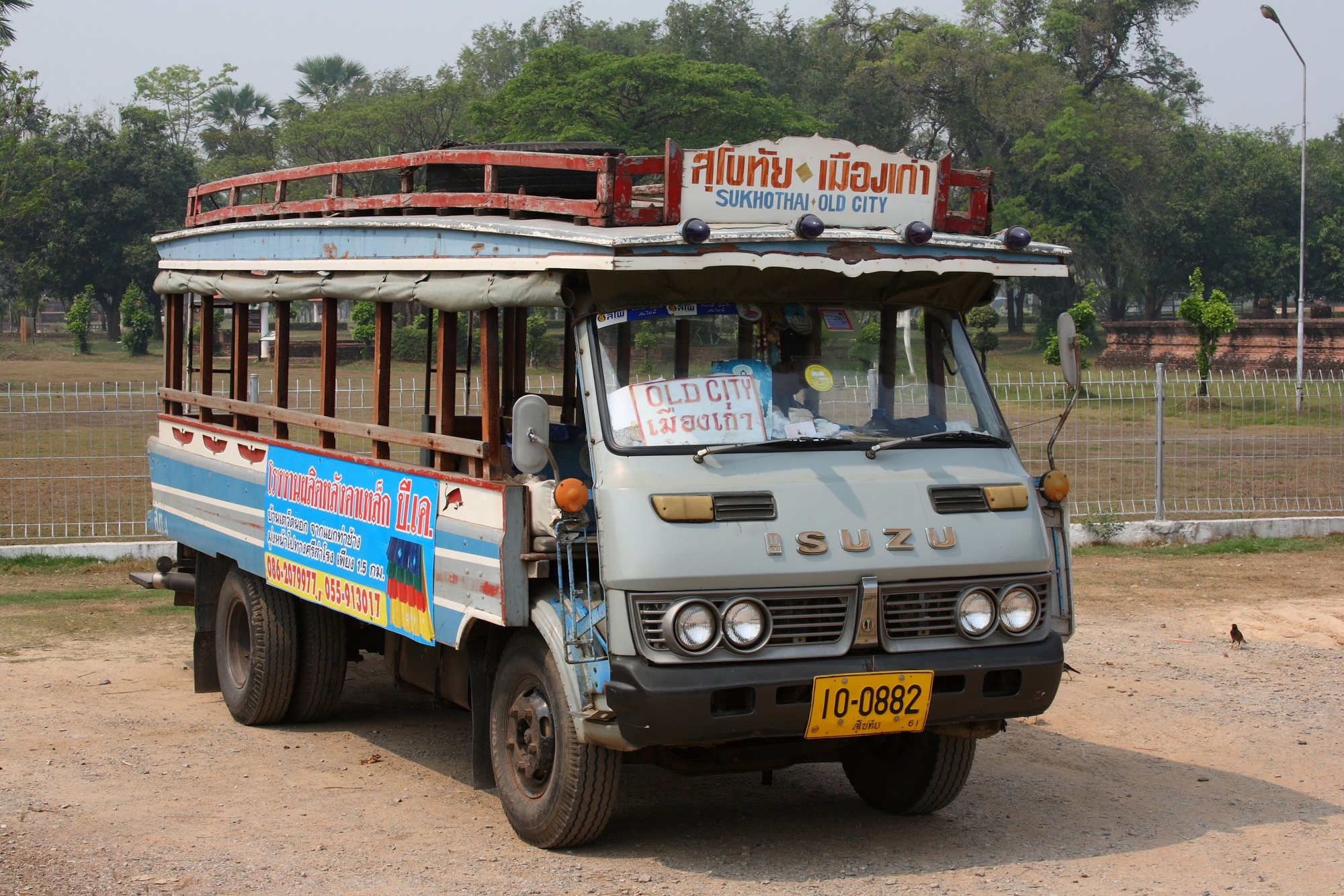 Songthaew in Sukhothai, Thailand (Isuzu Elf)